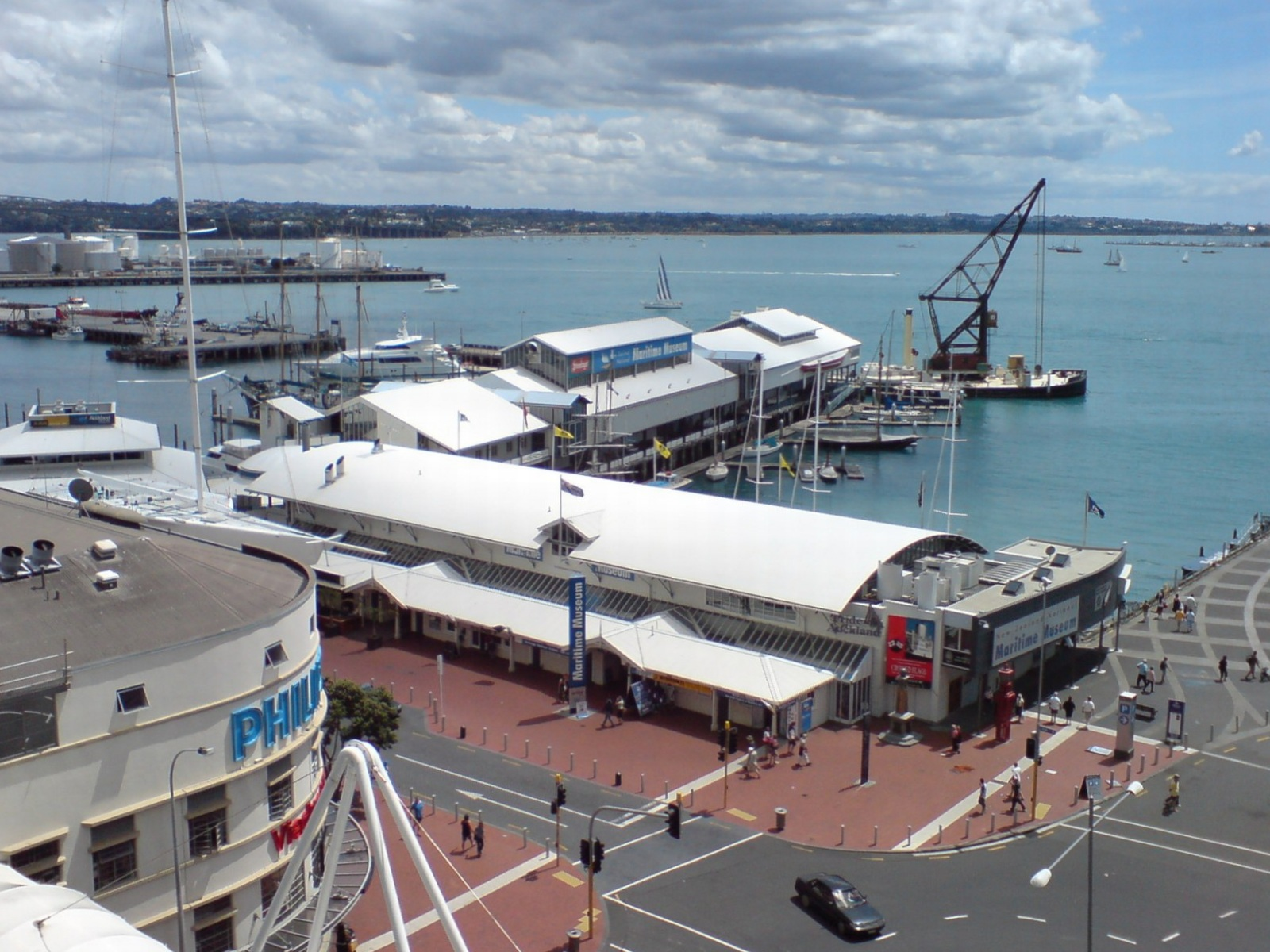 View from a parking building overlooking the National Maritime Museum in downtown Auckland City, New Zealand. The museum is within the large sheds on the wharf to the left. The floating crane at the north end is part of the museum and can be explored, including the interior. The museum building is listed with the New Zealand Historic Places Trust, Register number: 608.